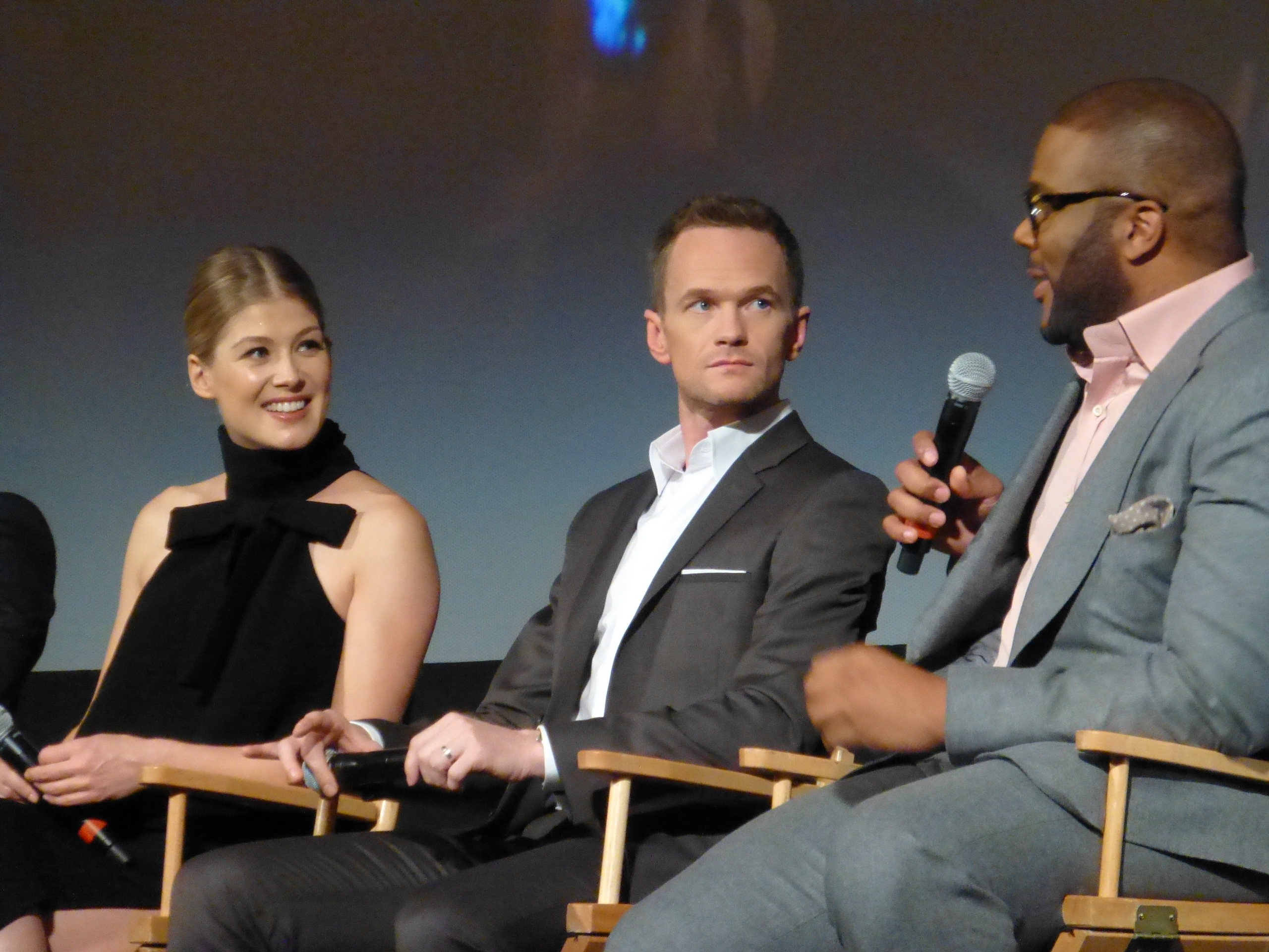 Gone Girl Premiere at the 52nd New York Film Festival, October 2014.